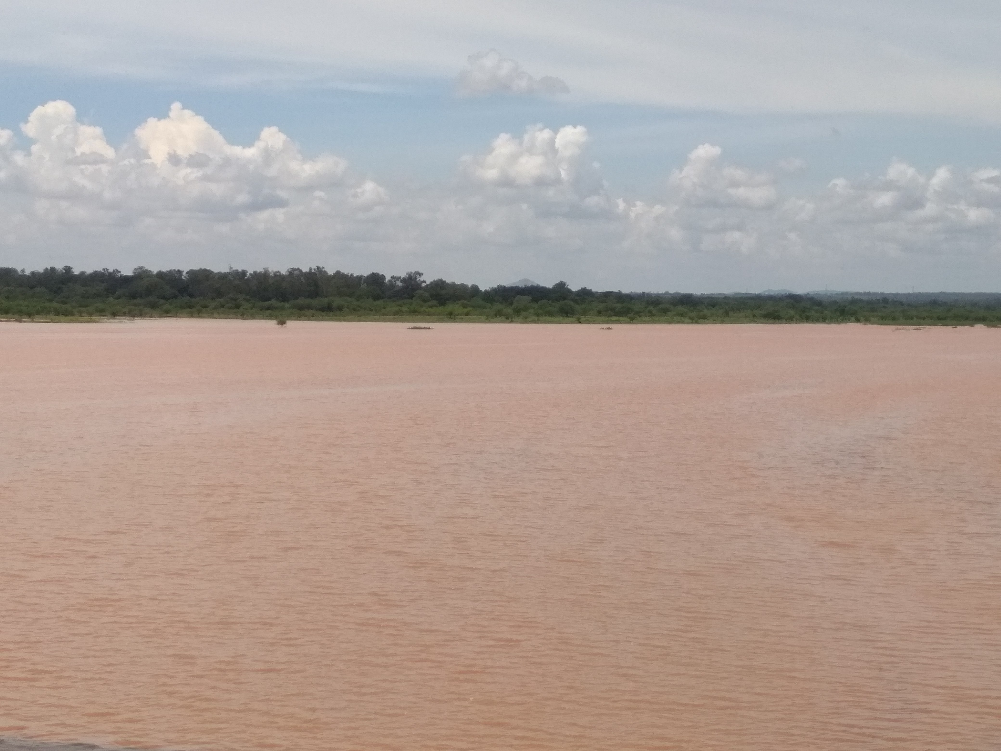 Hesaraghatta lake picture taken on 7th Sept 2017 after a heavy rain on the preceding day.